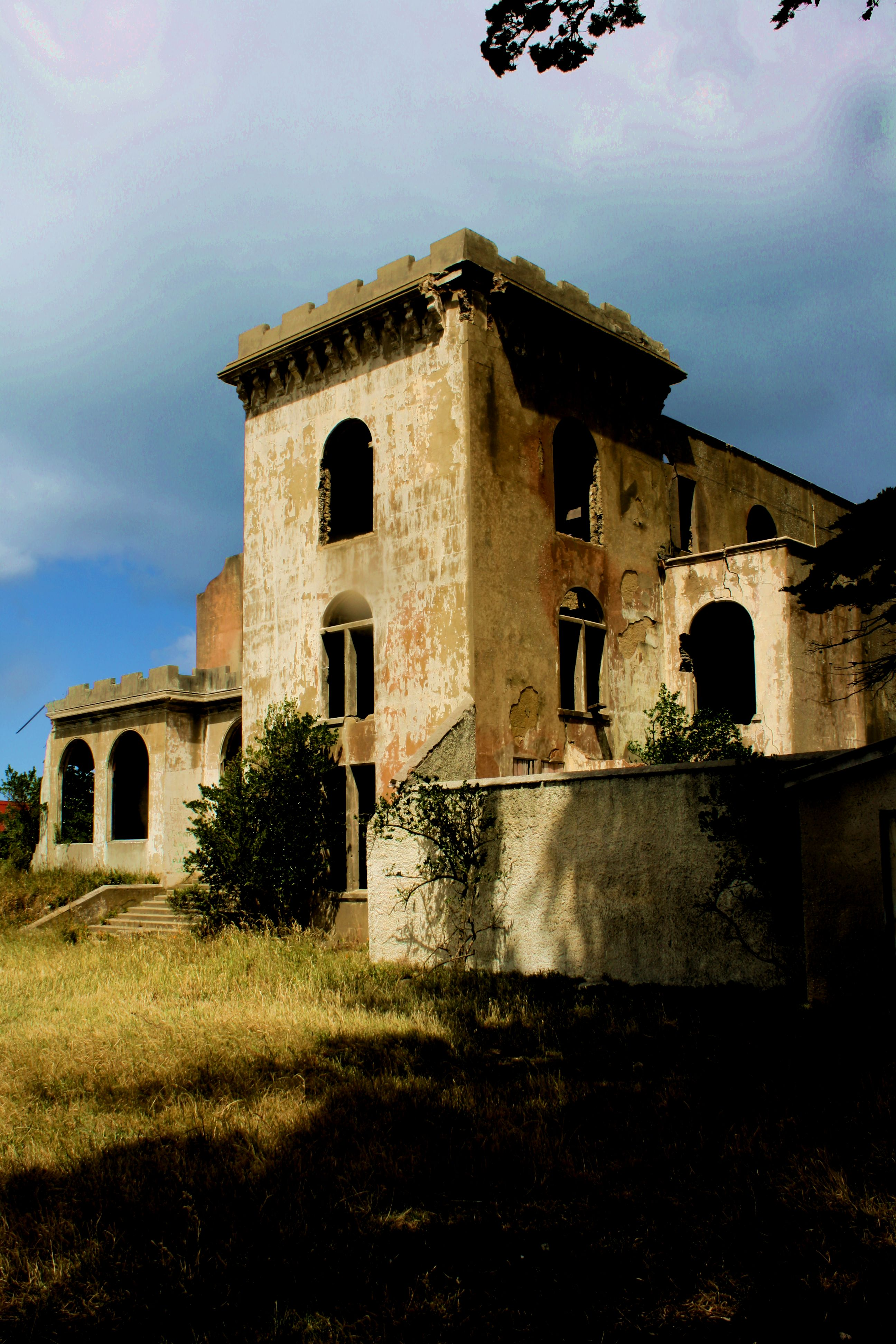 front view of Cargill's Castle